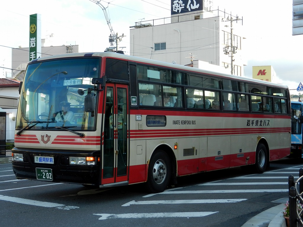 Iwate Kenpoku bus Nissan Diesel Space Arrow (KC-RA531RBN) for "106 express bus"(Miyako-Morioka)